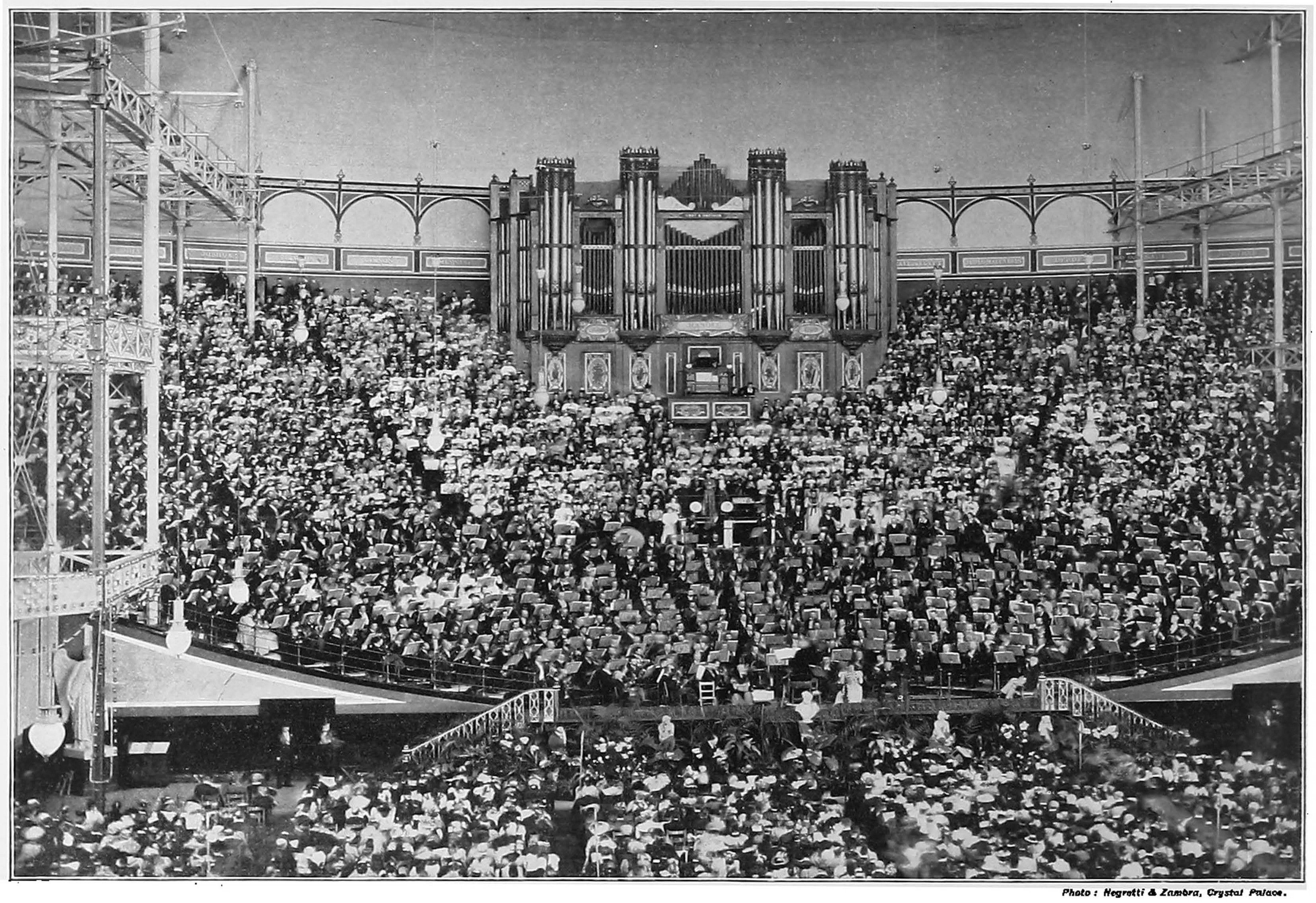 THE HANDEL FESTIVAL AT THE CRYSTAL PALACE. If Handel conferred a great obligation upon England by electing to make London his home and the scene of much of his life-work, England has at least done something to discharge the debt by keeping alive the fame of the great composer, and by rendering his great oratorios in a way which the master himself would have commended. The great " Handel Orchestra and Choir." which at regular intervals perform the ever popular oratorios at the Crystal Palace, have fostered and created a love for the music of Handel which will live long among Englishmen. Their interpretation is worthy of their theme: the great organ, responding to the touch of a master hand, adds depth and power to the sound of many voices, and even the vast cxjwnse of the Crystal Palace is too small to hold the ourober of those who love to listen to the stately theme and to bear the splendid passages of " Elijah," " The Creation," and " Jephtha" recited by the greatest vocalists of the day.